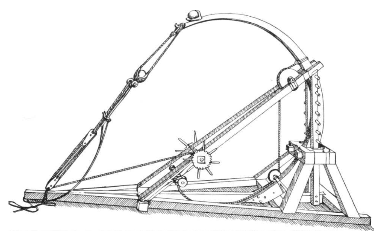 Double catapult with sling and cup by Leonardo Da Vinci